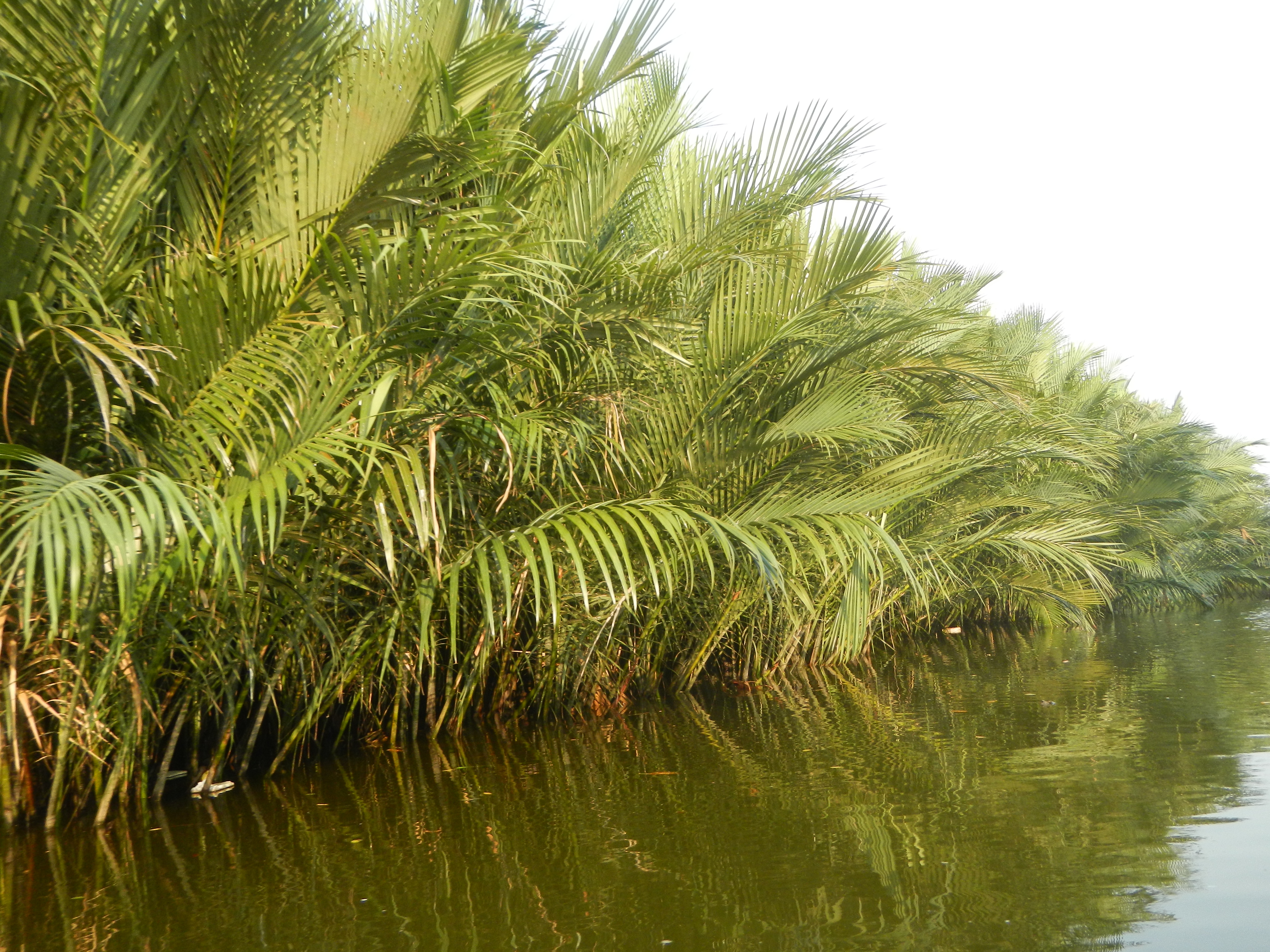 Malolos & Paombong River Districts (Nipa trees, mangroves and fishponds in Waang Krus, Calero, Malolos & Baluarte-Gunaw, San Jose, Paombong River banks) Malolos River Districts (Nipa trees, mangroves and fishponds in Waang Krus, Calero, Malolos River banks) Mangroves and Nypa fruticans Nypa fruticans Wurmb. Nypa fruticans Wurmb., Arecaceae Flora of the Philippines, bears globular flower cluster on a nipa palm, "Sasa" used in Nipa hut and Vinegar in Capture of Malolos Malolos River Latitude 14.8271 Longitude 120.83 in Barangays Panasahan 14°48'27"N 120°49'4"E Calero 14°49'27"N 120°48'35"E Malolos City, Bulacan in front and beside Barangay San Jose 14°49'52"N 120°47'32"E Sitio Gunaw-Baluarte 14°49'4"N 120°48'27"E, Paombong, Bulacan (along the Malolos City, Bulacan, Malolos City-Paombong-Hagonoy National Road connecting to and from MacArthur Highway or Manila North Road) MacArthur Highway (Malolos City section) (Note: Judge Florentino Floro, the owner, to repeat, Donor Florentino Floro of all these photos hereby donate gratuitously, freely and unconditionally all these photos to and for Wikimedia Commons, exclusively, for public use of the public domain, and again without any condition whatsoever).